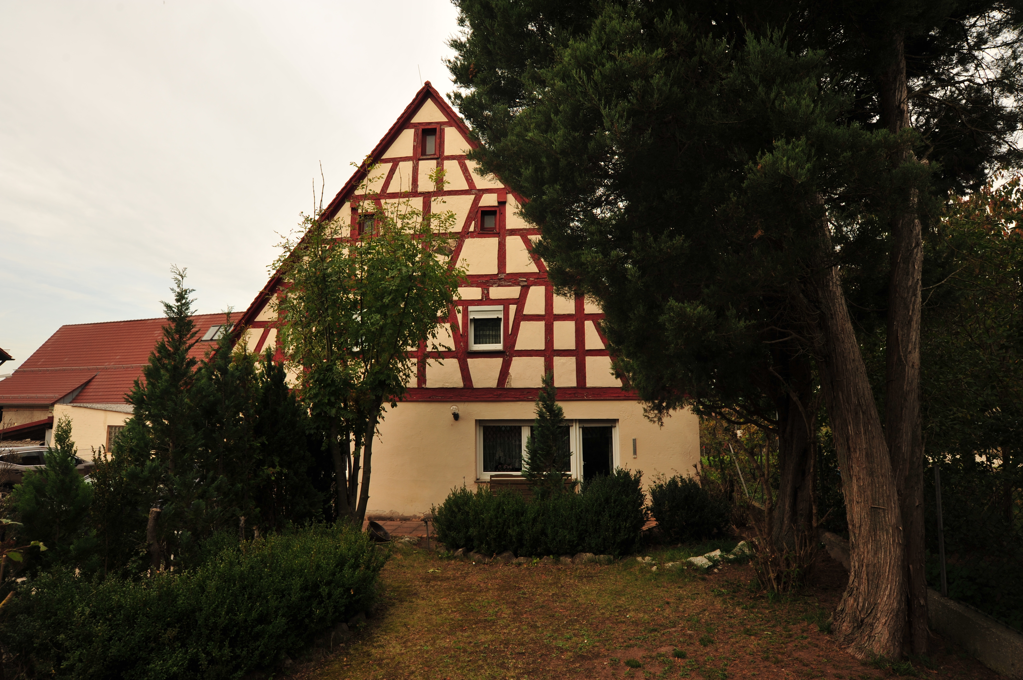 This is a photograph of an architectural monument.